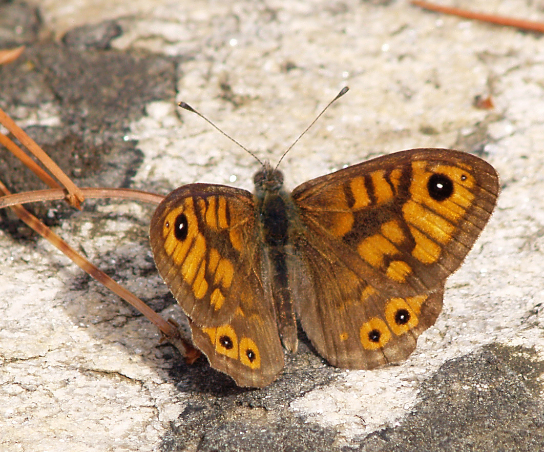 Male Wall brown (Lasiommata megera), Thasos, Greece